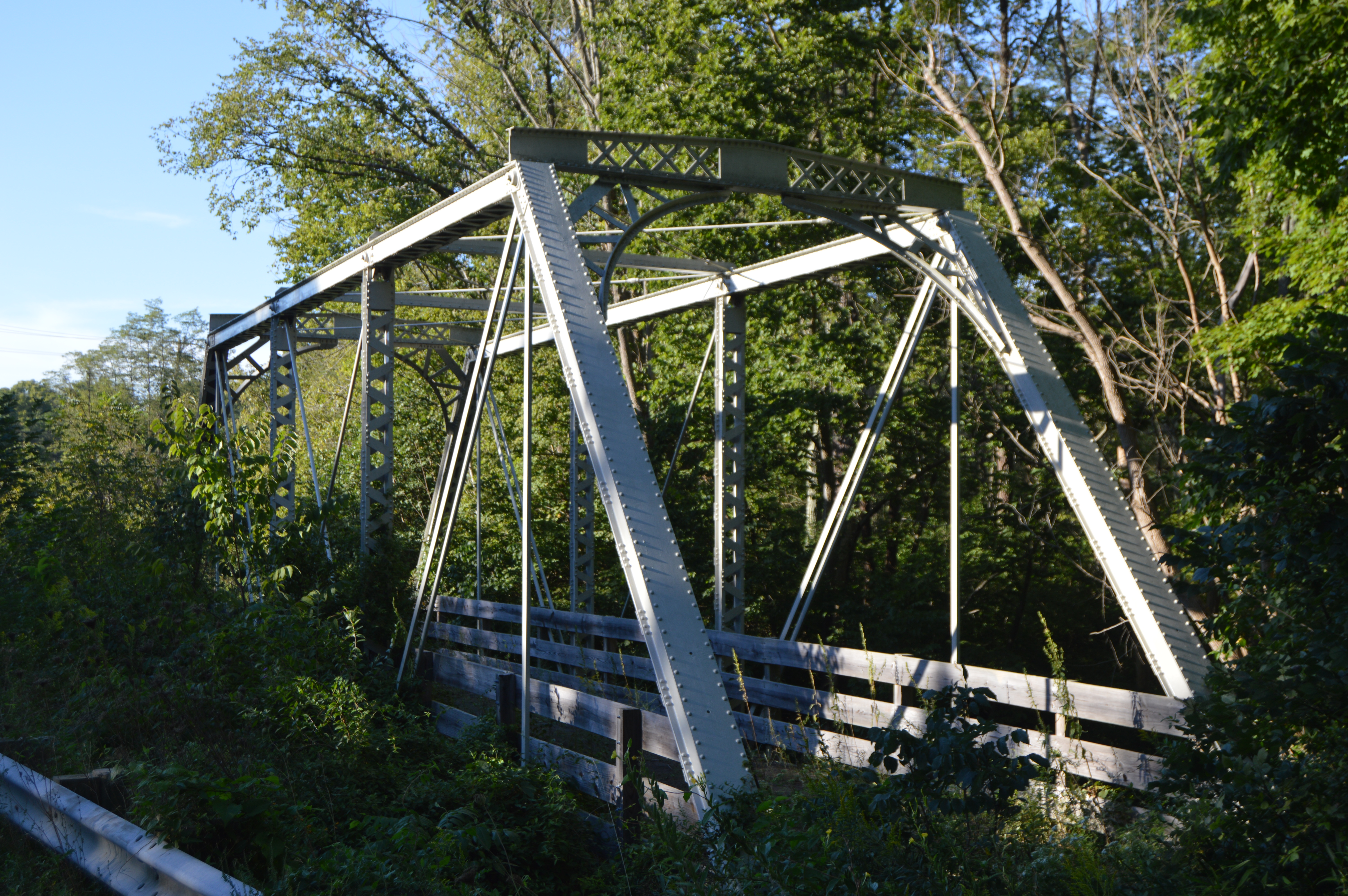 Southwestern side and southeastern portal of the bridge that formerly carried State Route 123 over a rail line southeast of Morrow in Salem Township, Warren County, Ohio, United States. Built in 1880, it lies along the northeastern side of the current State Route 123.